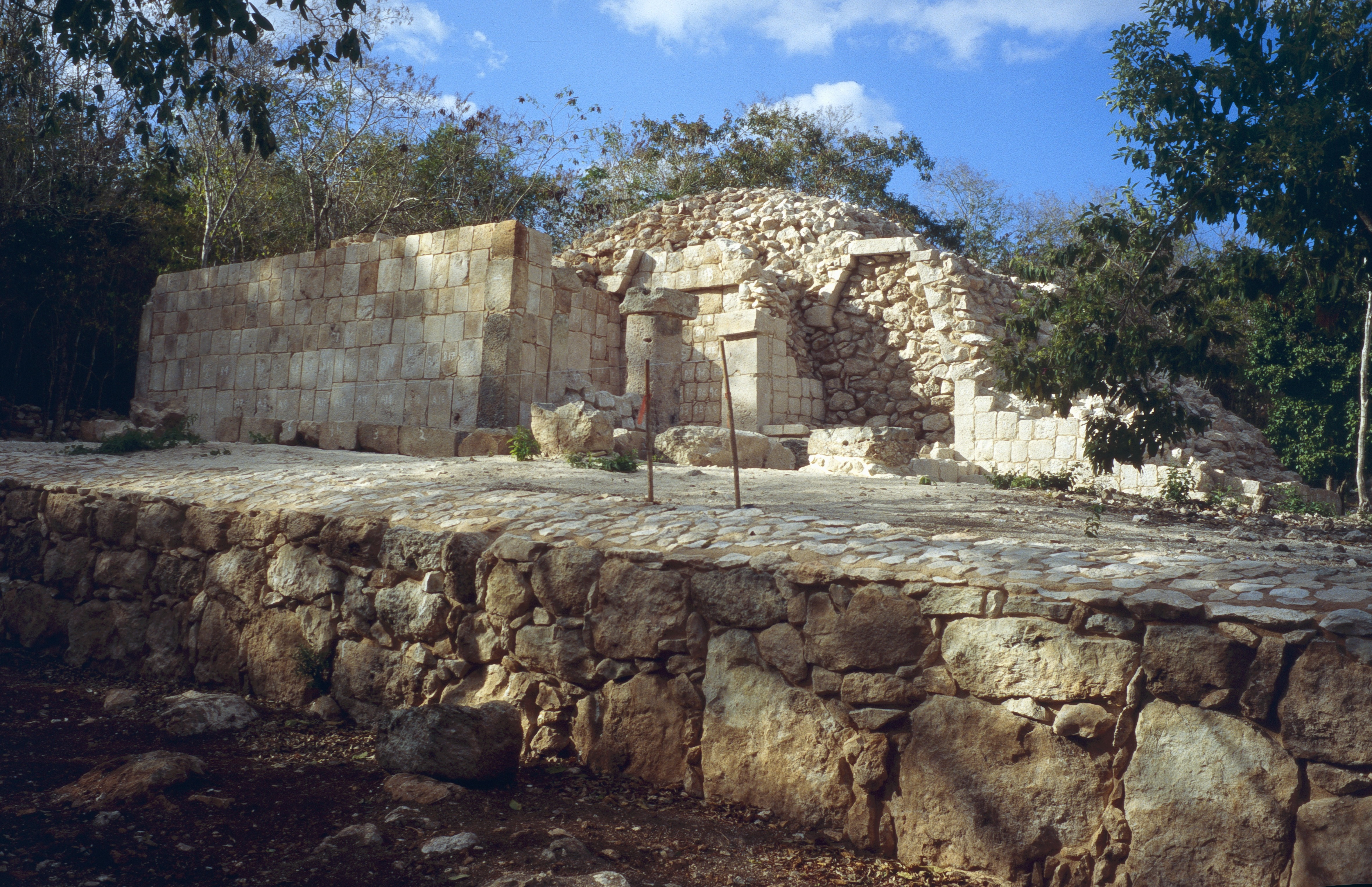 Kabah, Yucatan, Mexico: building 1A4, southern part